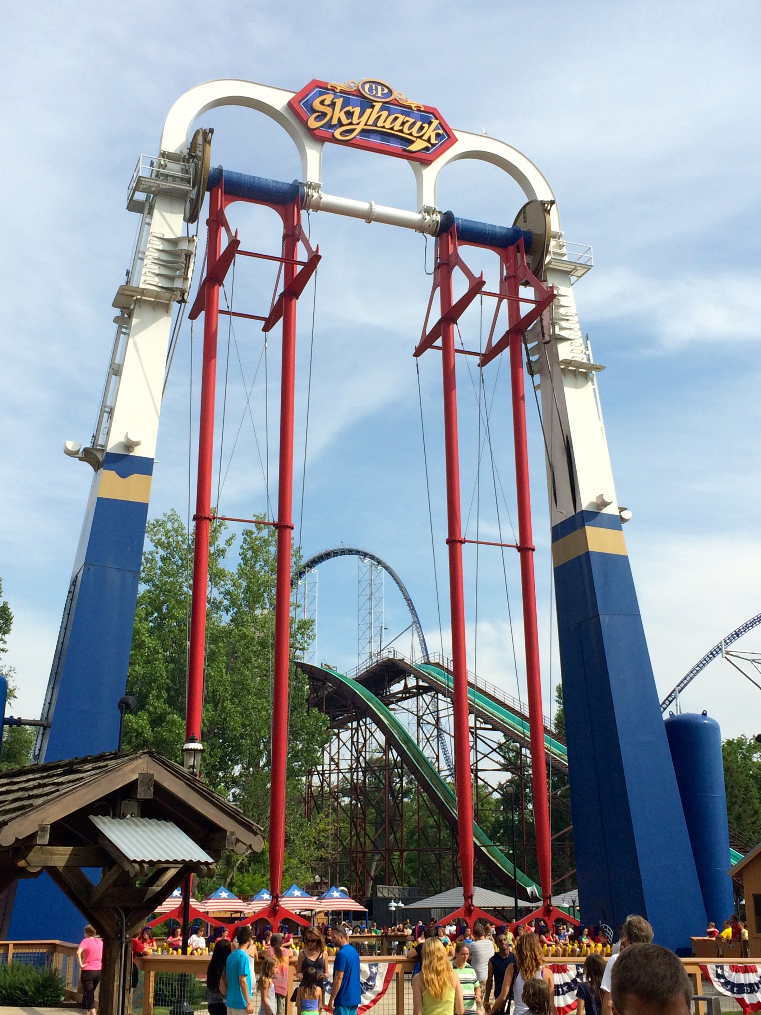 Skyhawk at Cedar Point in the loading/unloading position.